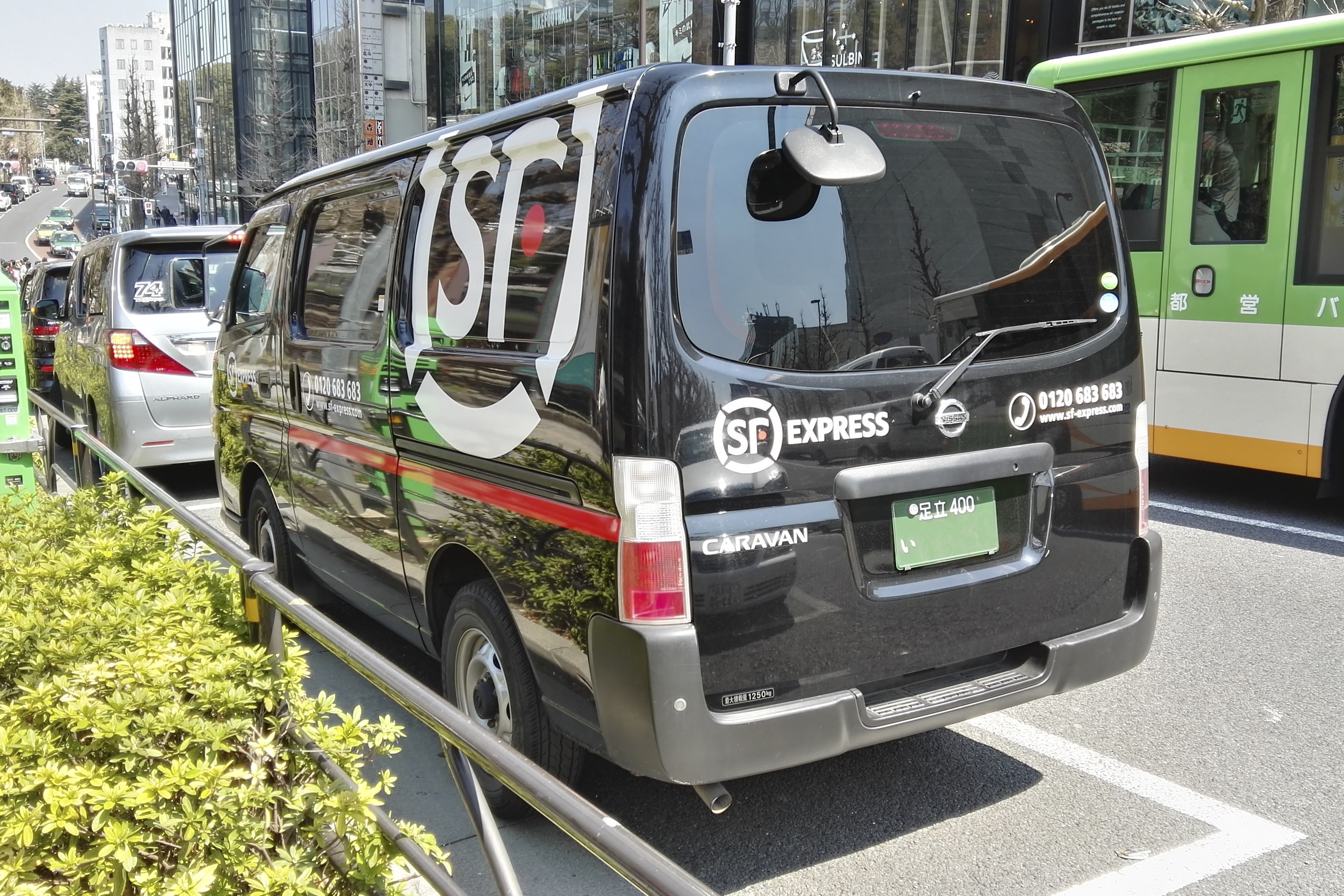 A Nissan Caravan owned by SF Express was parked near Harajuku Station.